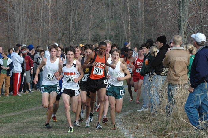 Minnesota state cross county meeting – Elliot Heath, from Winona and Hassan Mead, from Minneapolis South, taking the lead at the Minnesota High School State Meet held at St Olaf College in Northfield, Minnesota, United States.